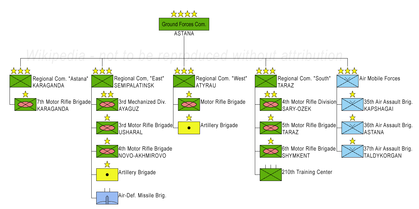 Kazakhstan Ground Forces OrBat